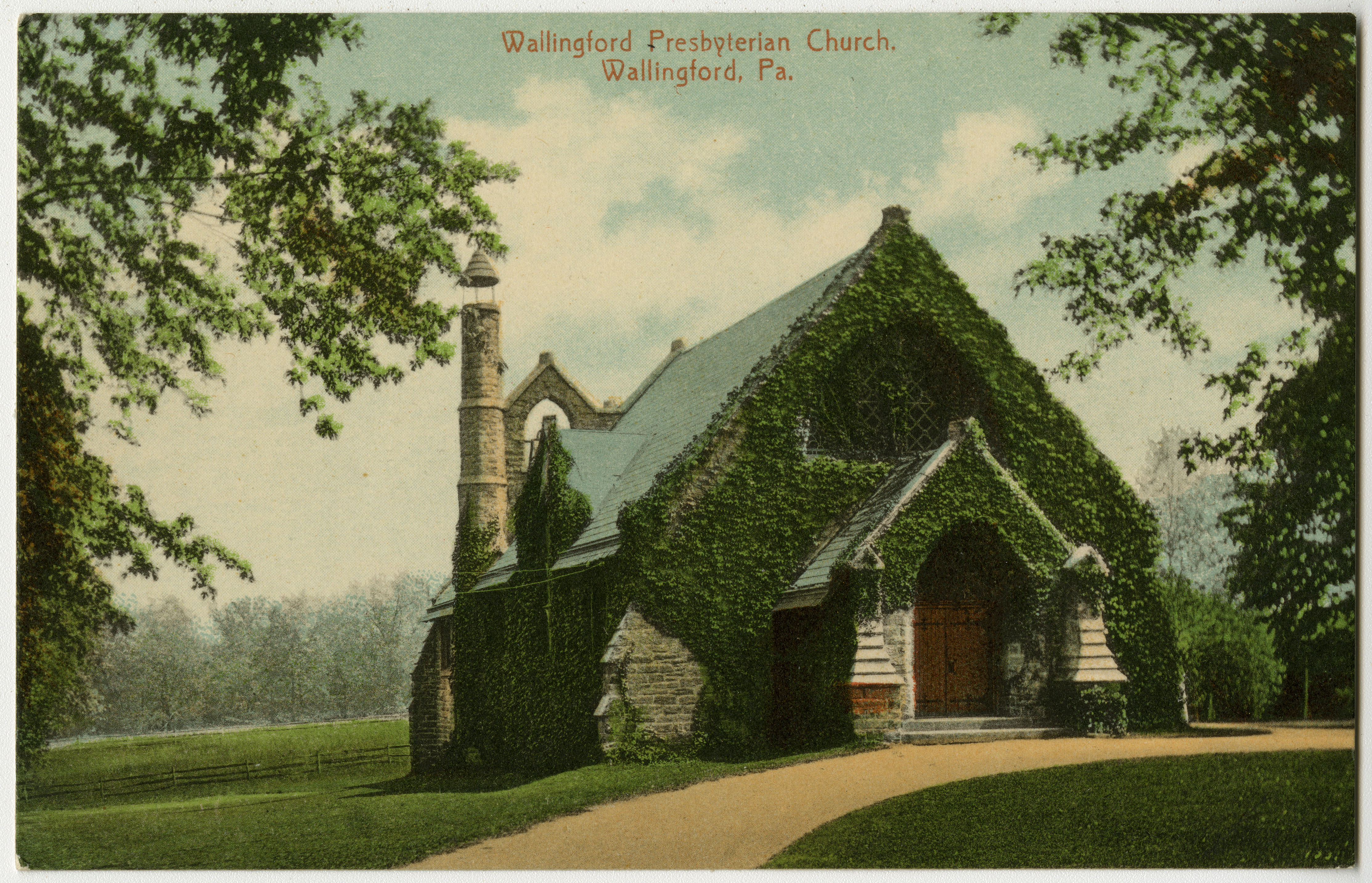 Presbyterian Church in Wallingford, Pennsylvania from a pre-1923 postcard From RG 428, Postcard Collection, Presbyterian Historical Society, Philadelphia, Pennsylvania.